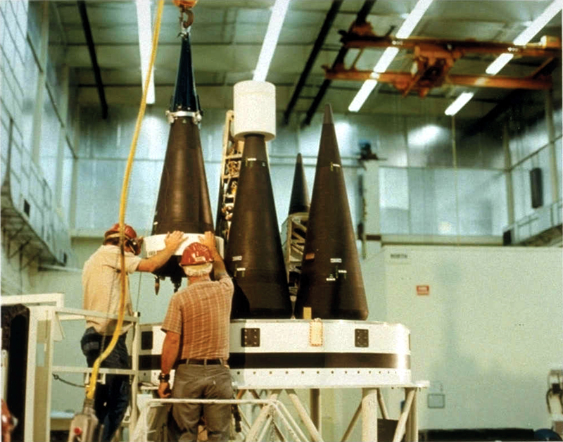 W87 warheads inside MK21 RVs on a Peacekeeper bus at Vandenberg AFB in 1983.